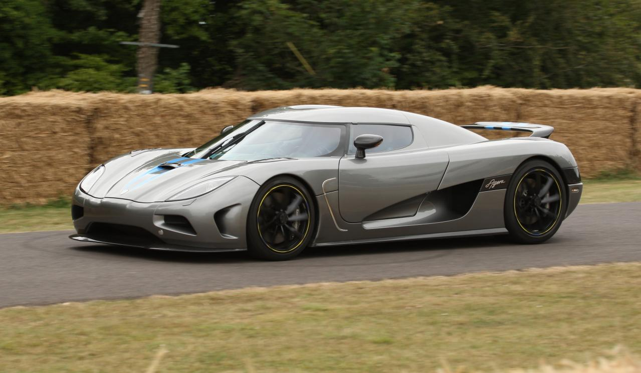 pictures from friday at fos